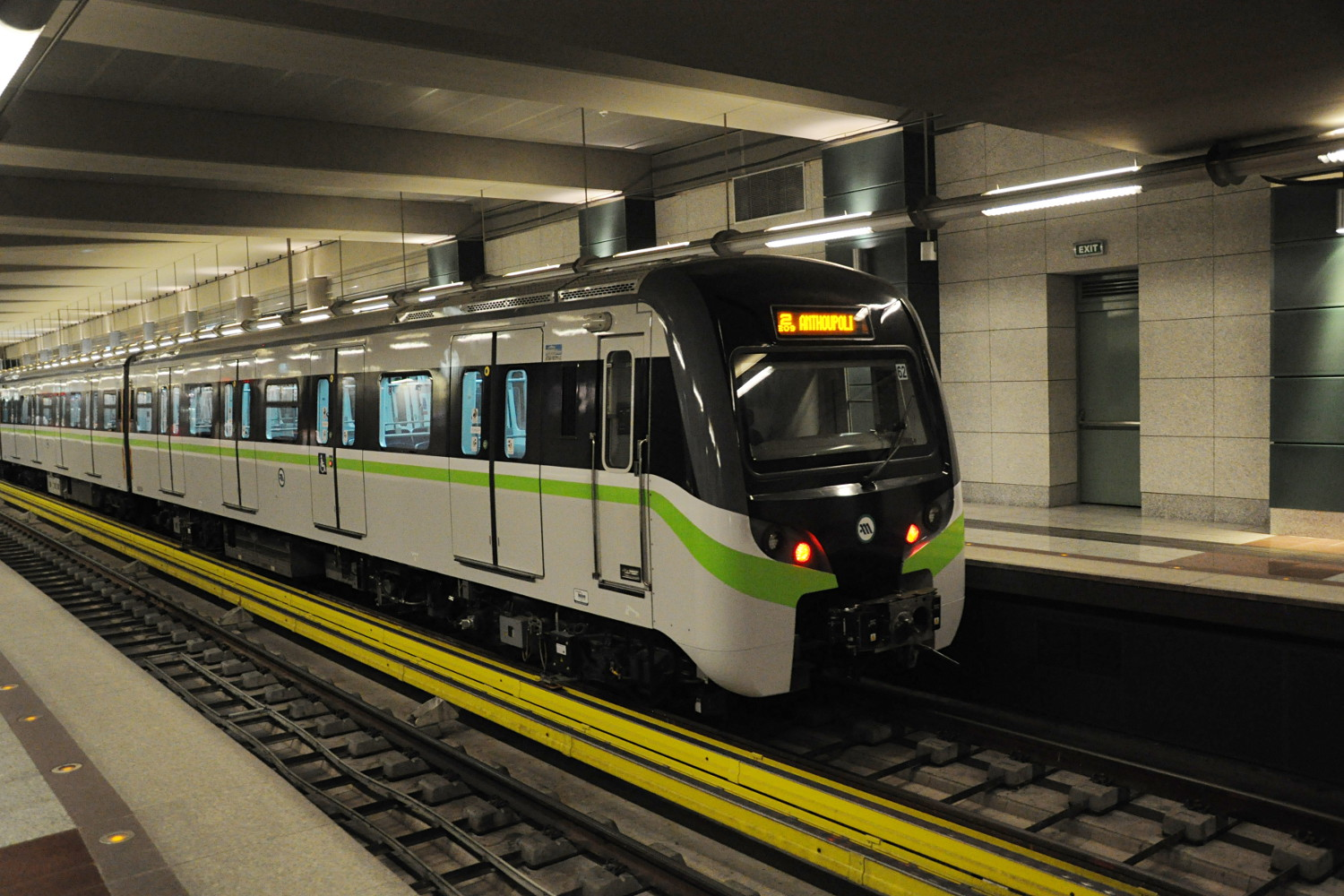 A new HANWHA-Rotem 3rd generation train of Athens Metro at Anthoupoli station.